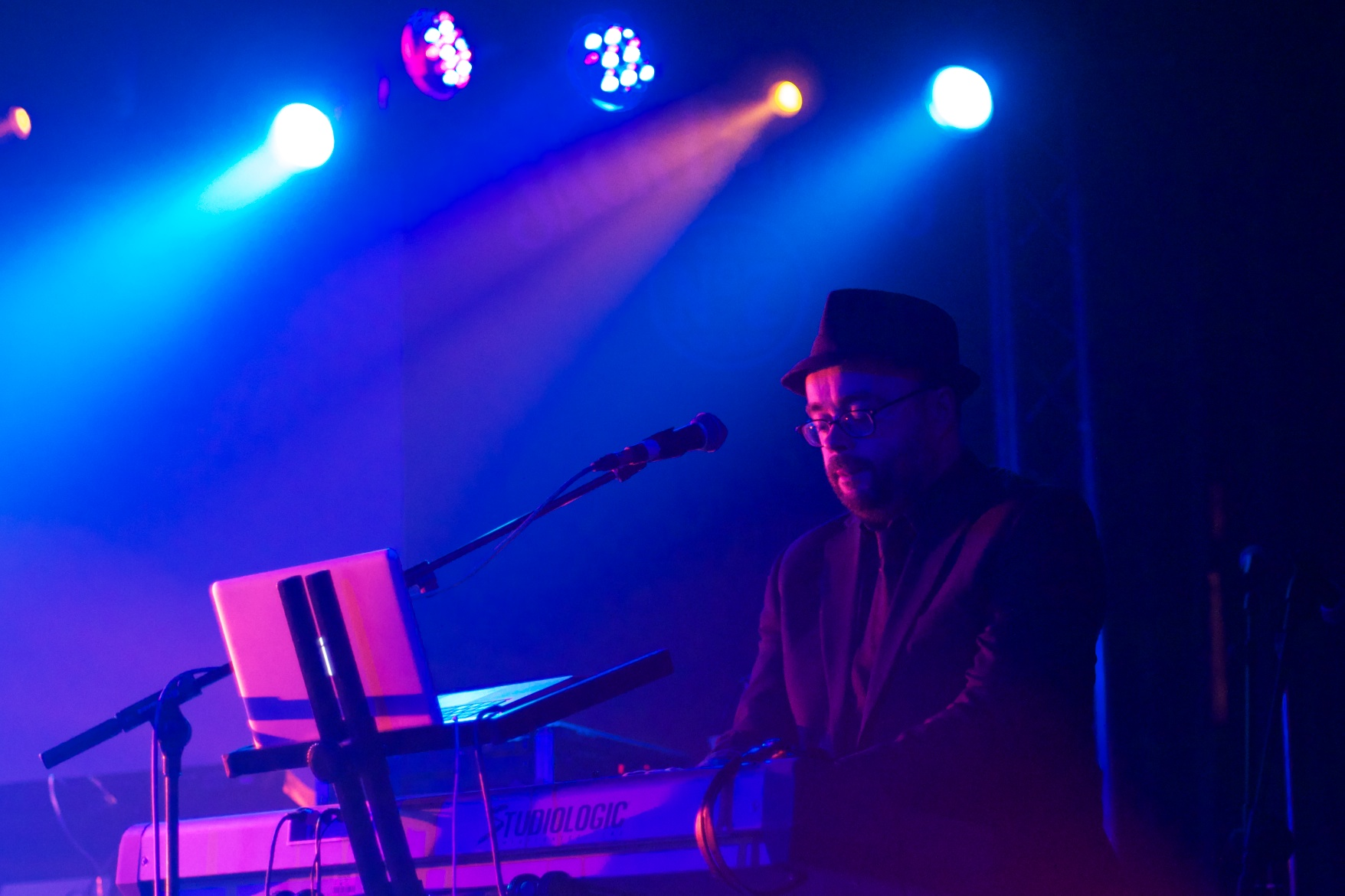 Rhodri Marsden playing keys in 2013.